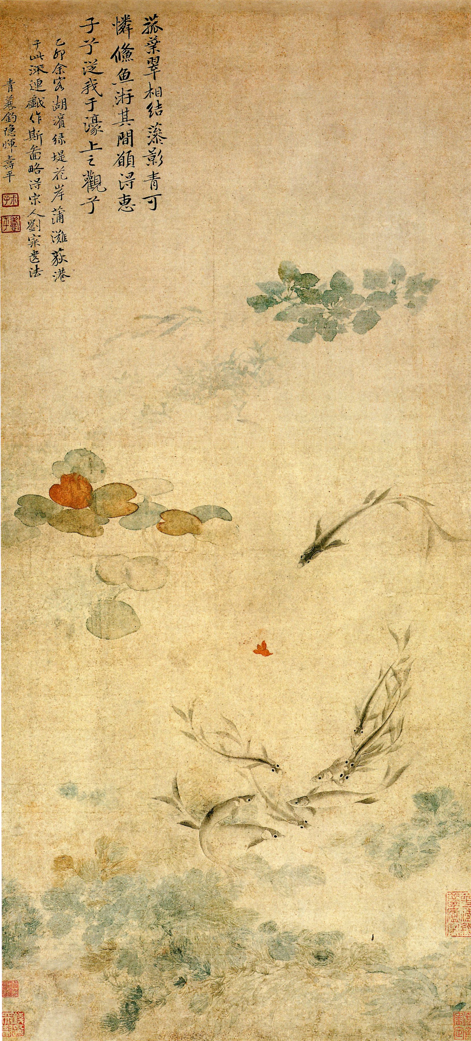 Yun Shouping